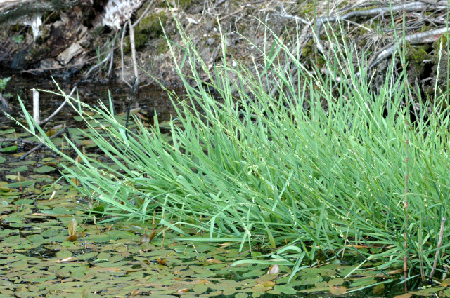 Glyceria fluitans from Commanster, Belgian High Ardennes .